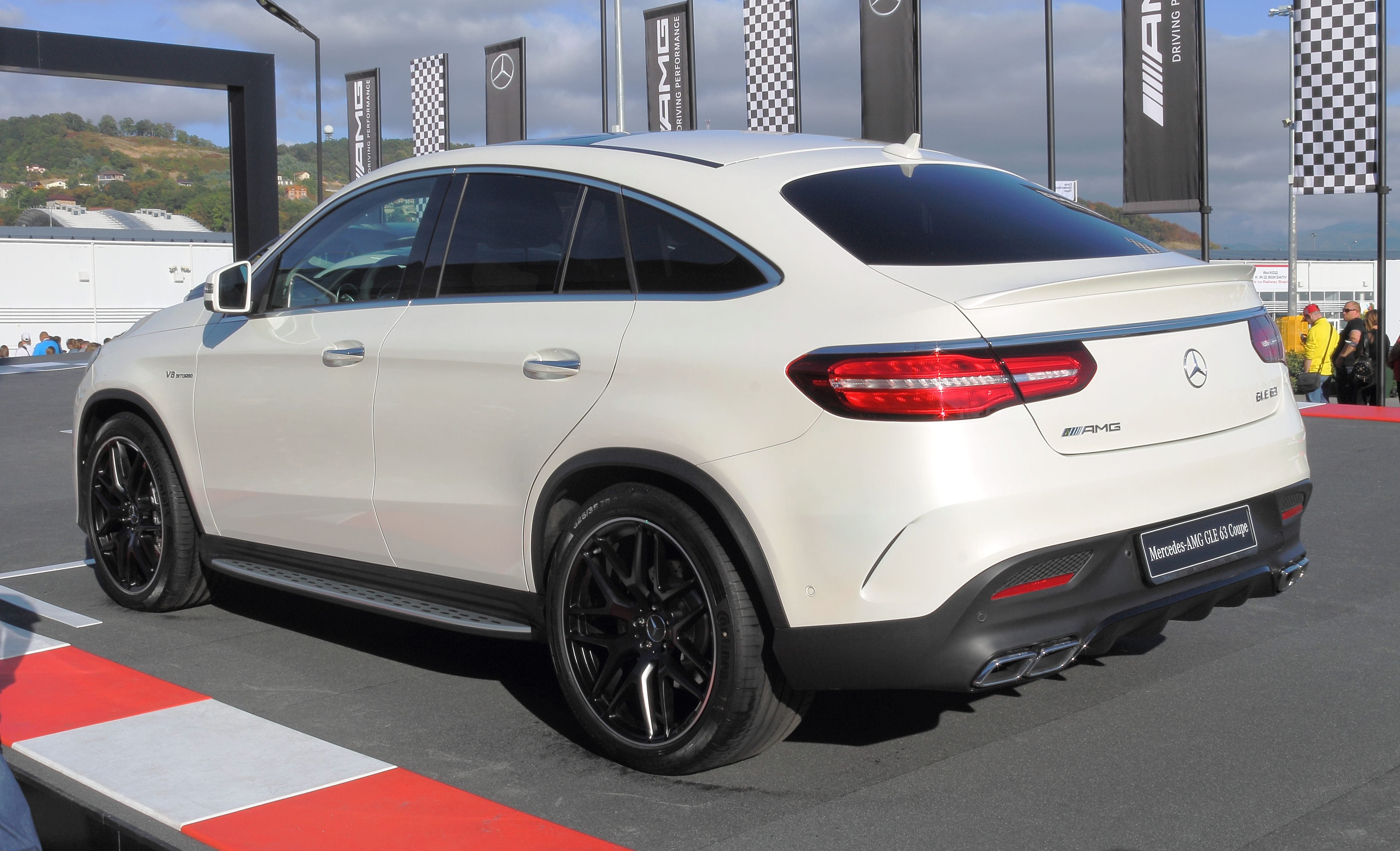 Mersedes-Benz AMG GLE 63 Coupe